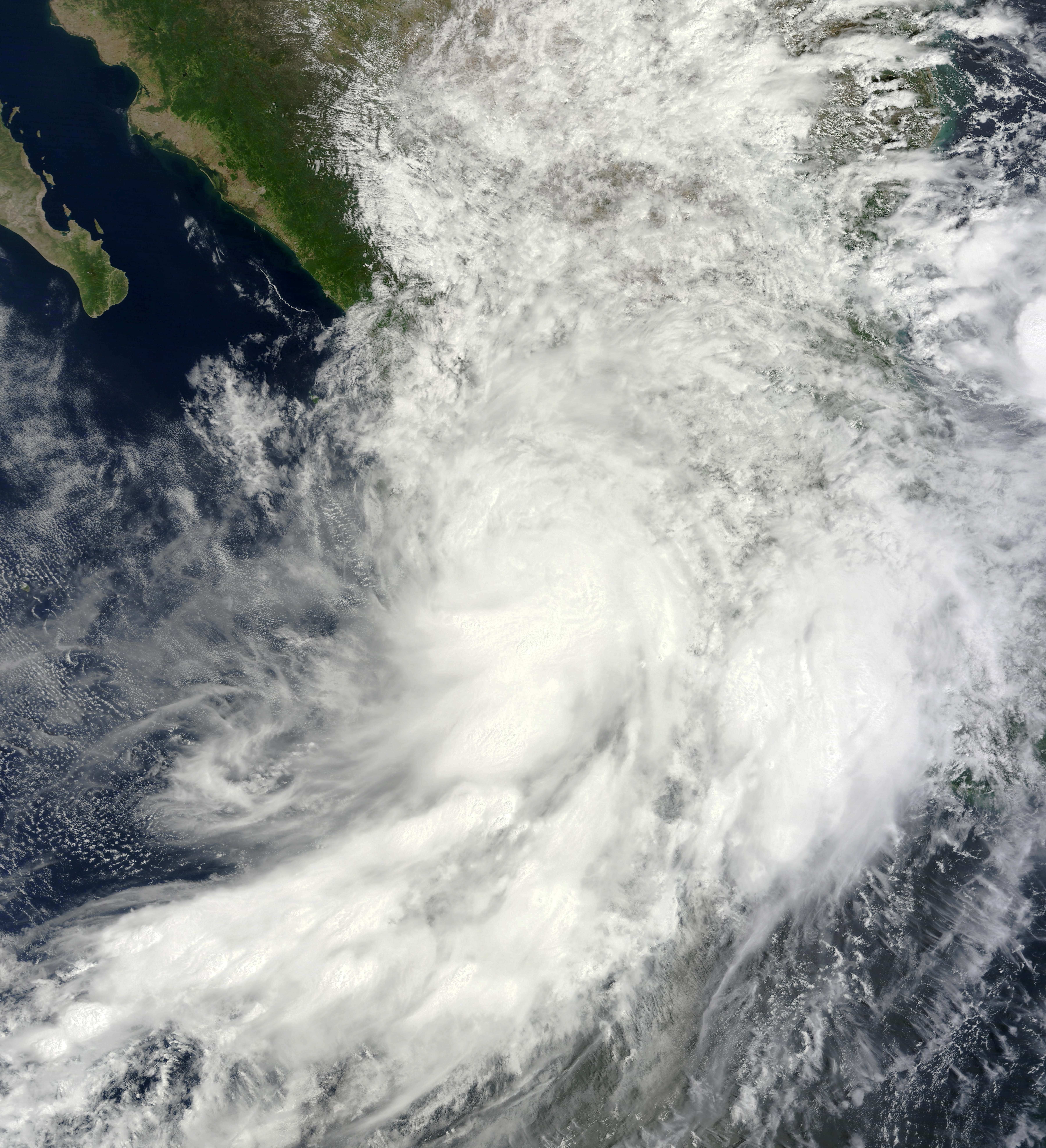 Tropical Storm Manuel on September 15, 2013